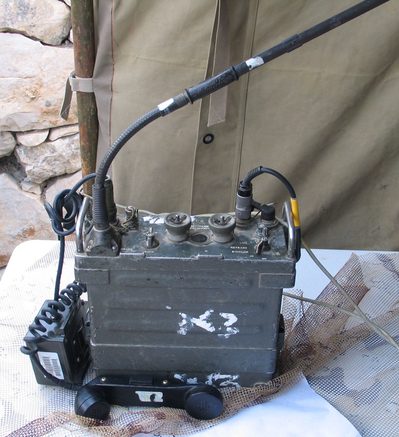 PRC-77 receiver-transmitter. Independence Day exhibition at Yad la-Shiryon Museum, Latrun, Israel.